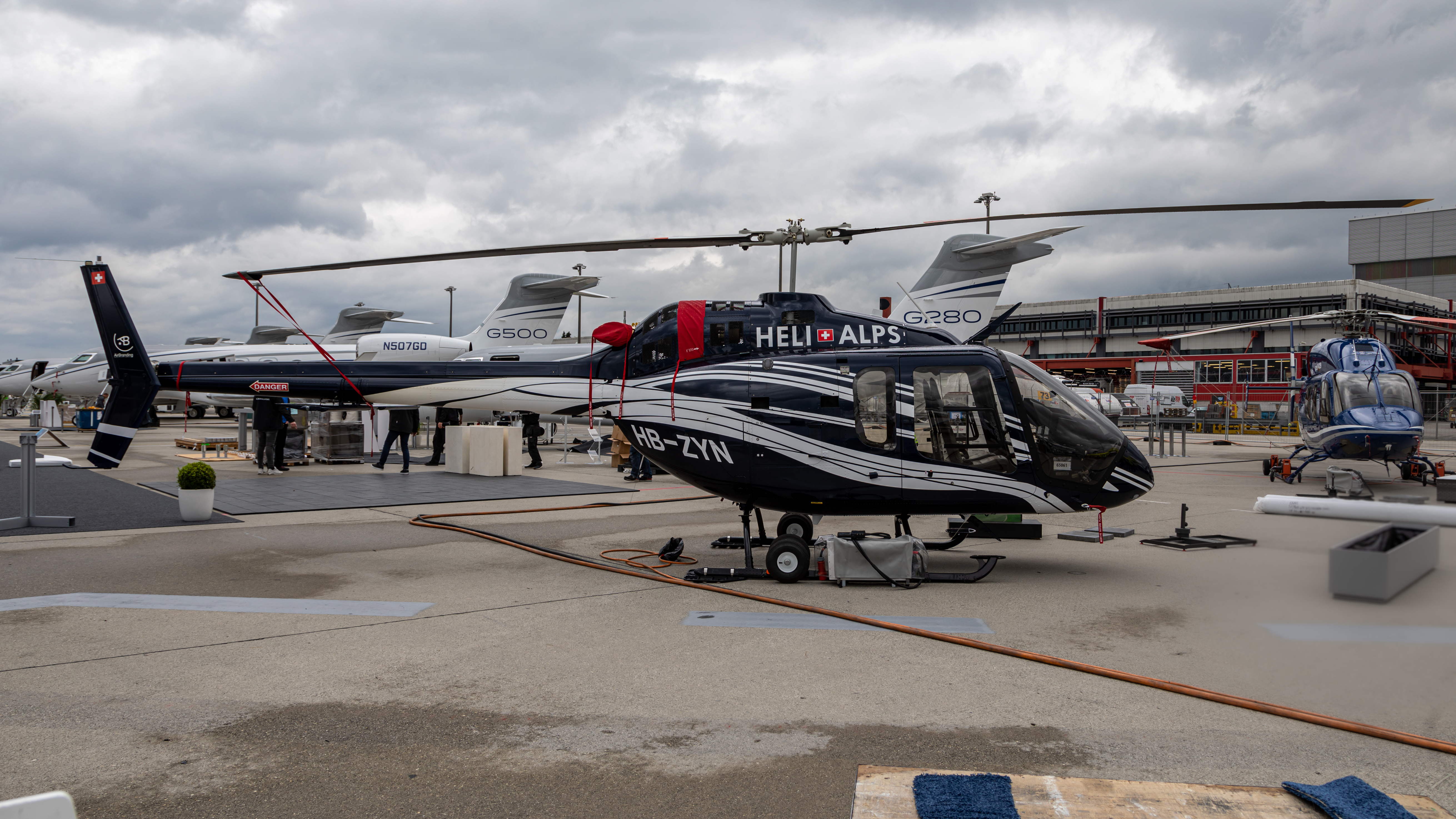 Swissheli Bell 505 at EBACE 2019, Palexpo, Switzerland